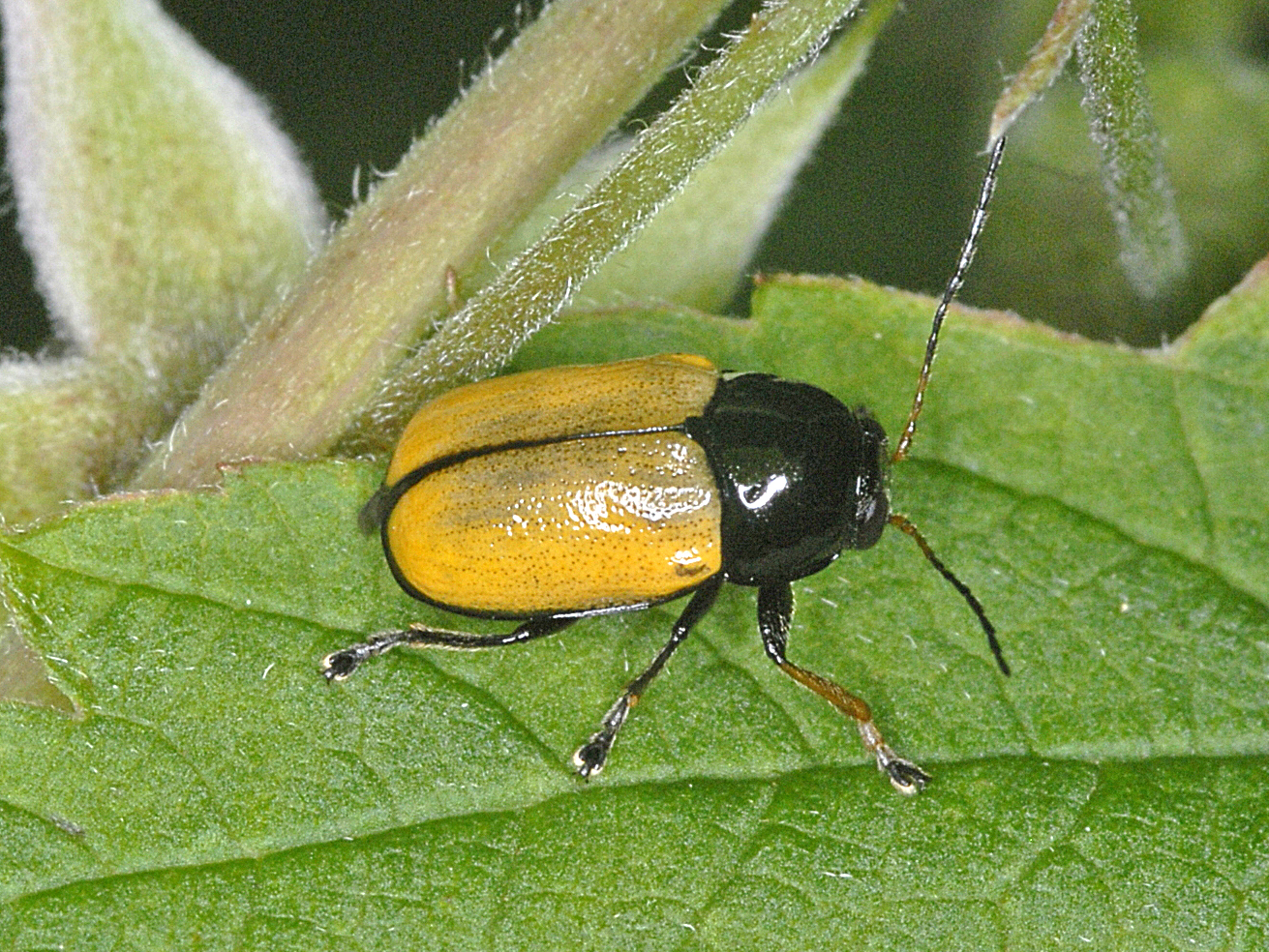 "Cryptocephalus marginatus", Female. Regional Park of Capanne di Marcarolo, Alessandria Italy